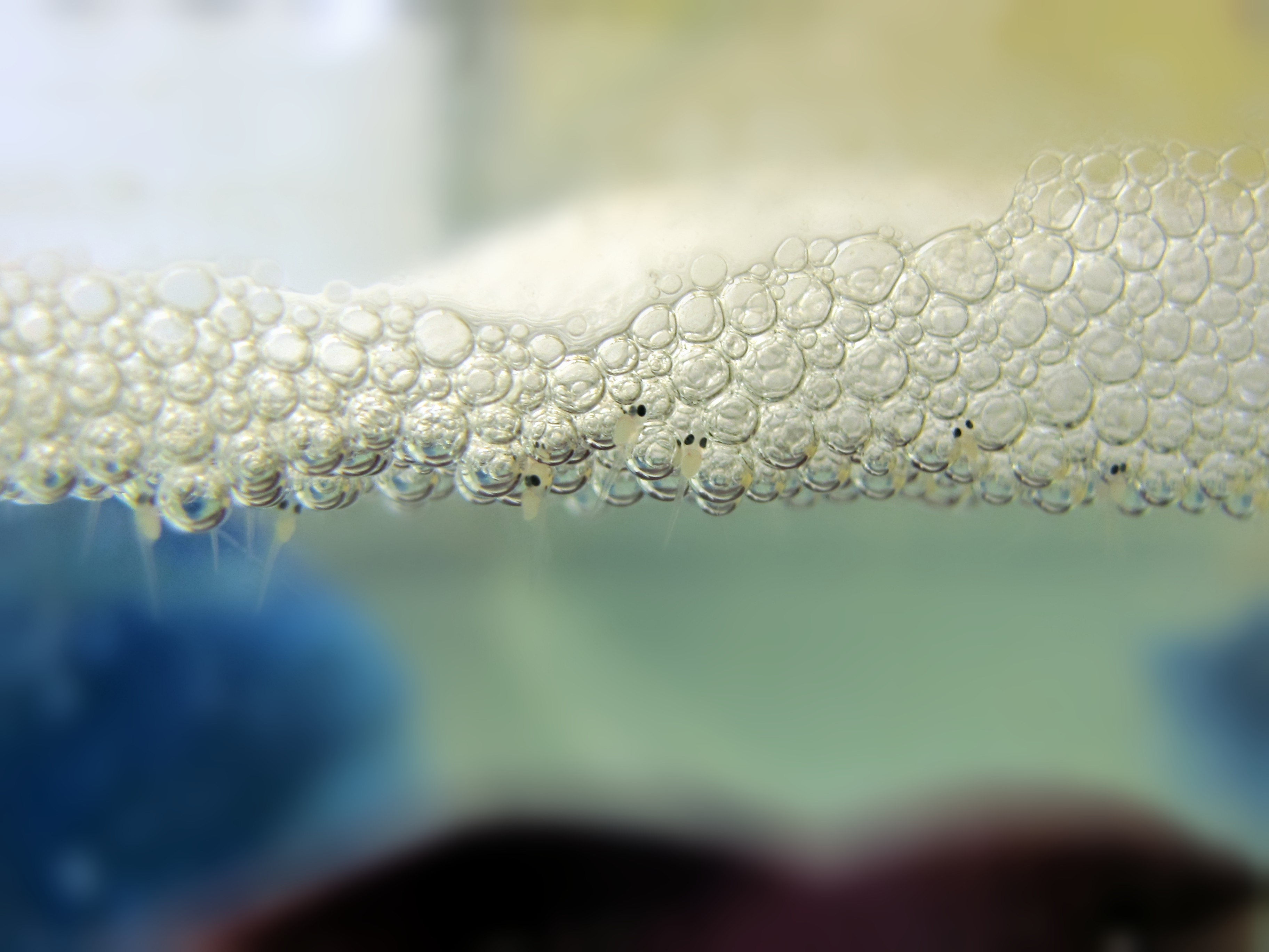 Siamese fighting fish (Betta splendens) fry (11 days old) in a bubble nest.